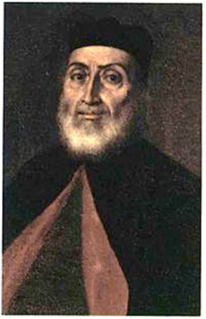 Self-portrait of Greek artist Nikolaos Koutouzis (recolored)